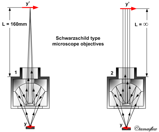 Reflecting microscope objectives.